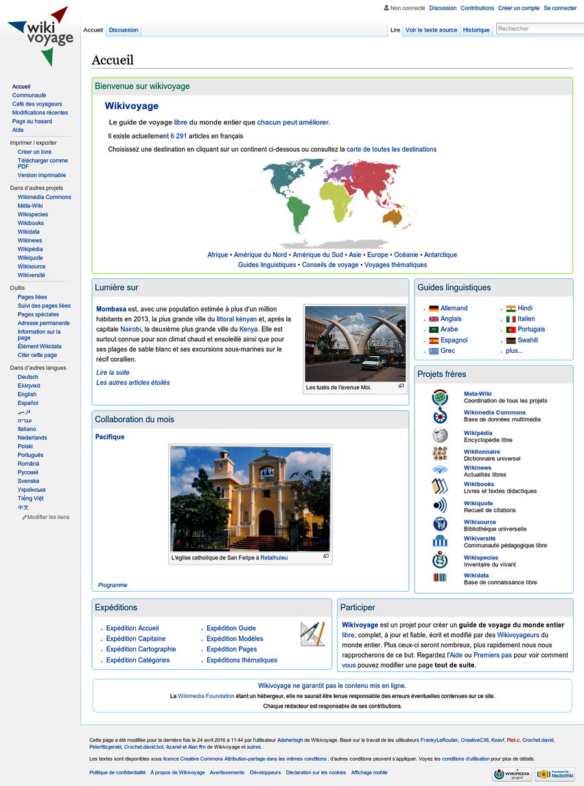 screenshot of